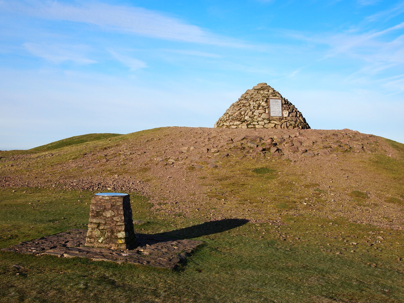 Dunkery Beacon